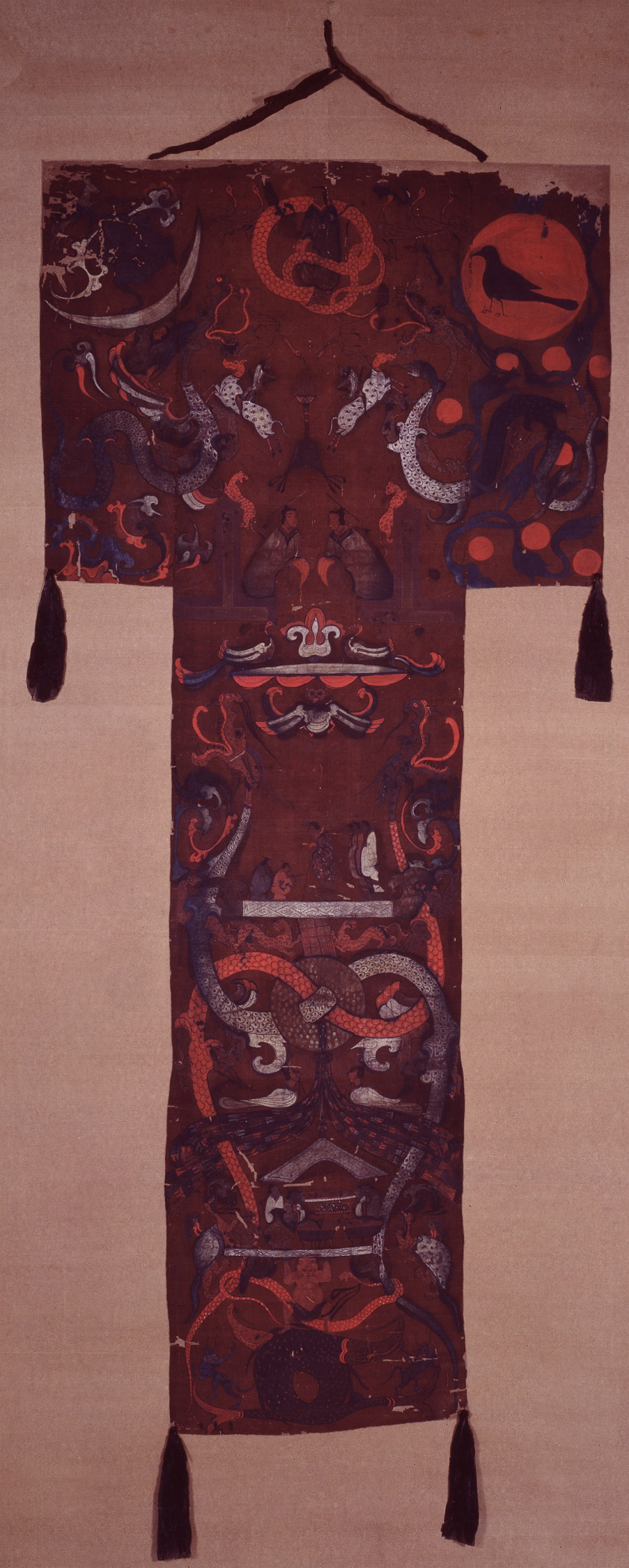 The painting on silk depicts the heaven (upper part), the human realm (middle part), and the netherworld (bottom part). Heaven: Nüwa, depicted as a human with a serpent's body Sun with its golden crow Another eight suns in the Fusang tree Toad on the moon Chang'e flying to the moon Heavenly gate separating heaven and earth as well as its gatekeepers Human realm: Xin Zhui (the deceased occupant of the tomb), accompanied by three maids of honor and welcomed by two minor officials, traveling over the road to heaven People who are offering sacrifices and prayers in a memorial service Netherworld: Giant that stands on the back of whales while holding up earth